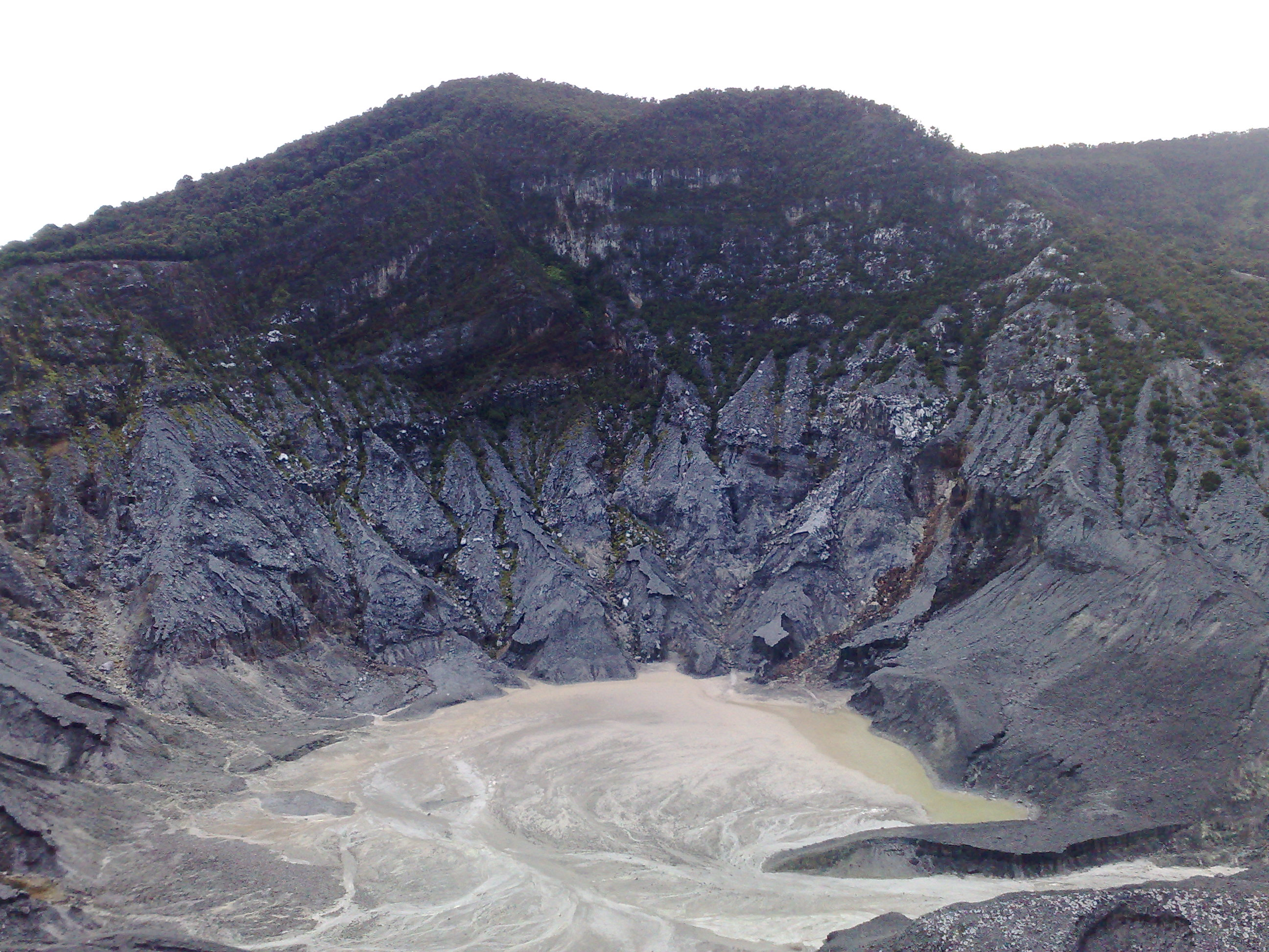 The crater of Tangkuban parahu. Photo taken in 2008.